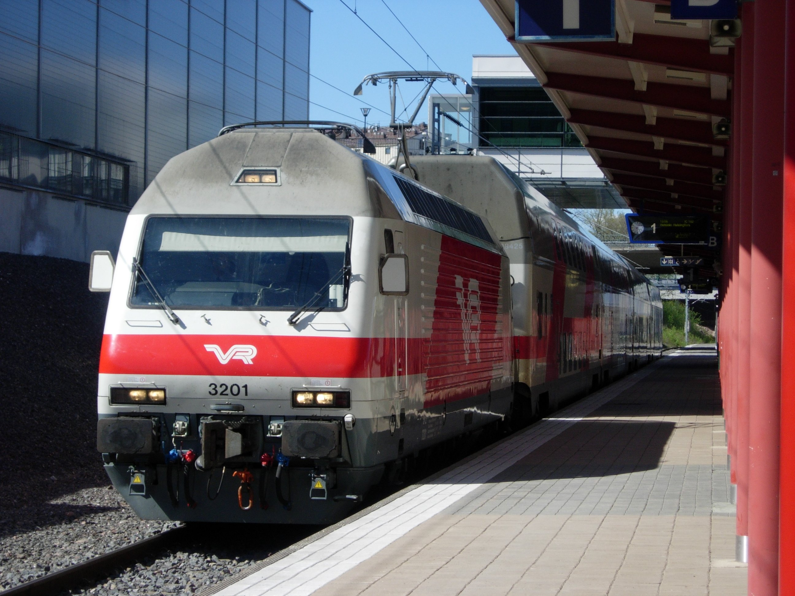 VR Class Sr2 electric locomotive no. 3201 and an InterCity train at Kupittaa railway station in Turku, Finland